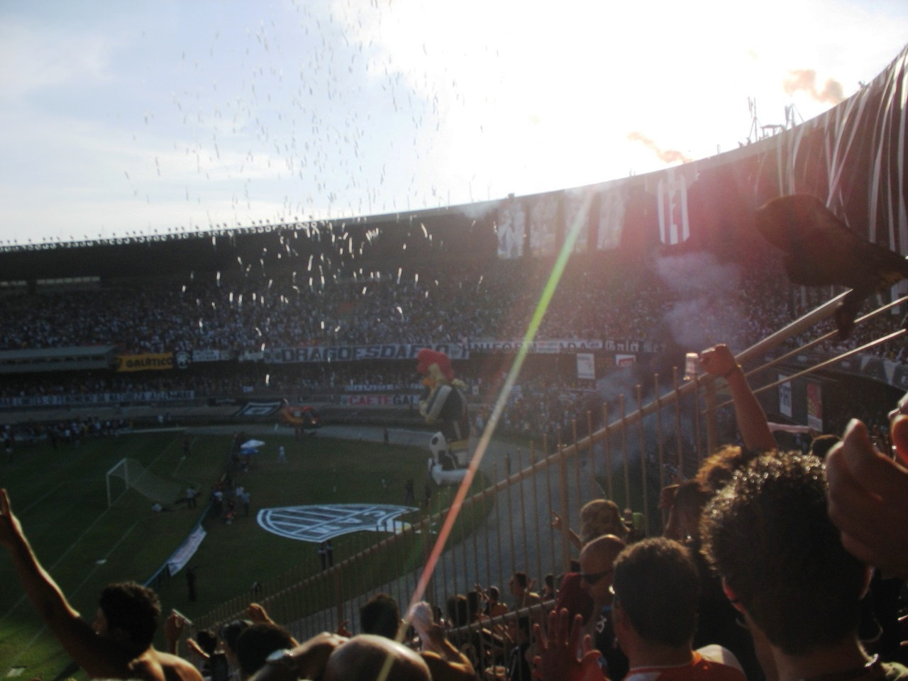 Atlético Mineiro supporters during a 2007 clássico mineiro held at the Mineirão.